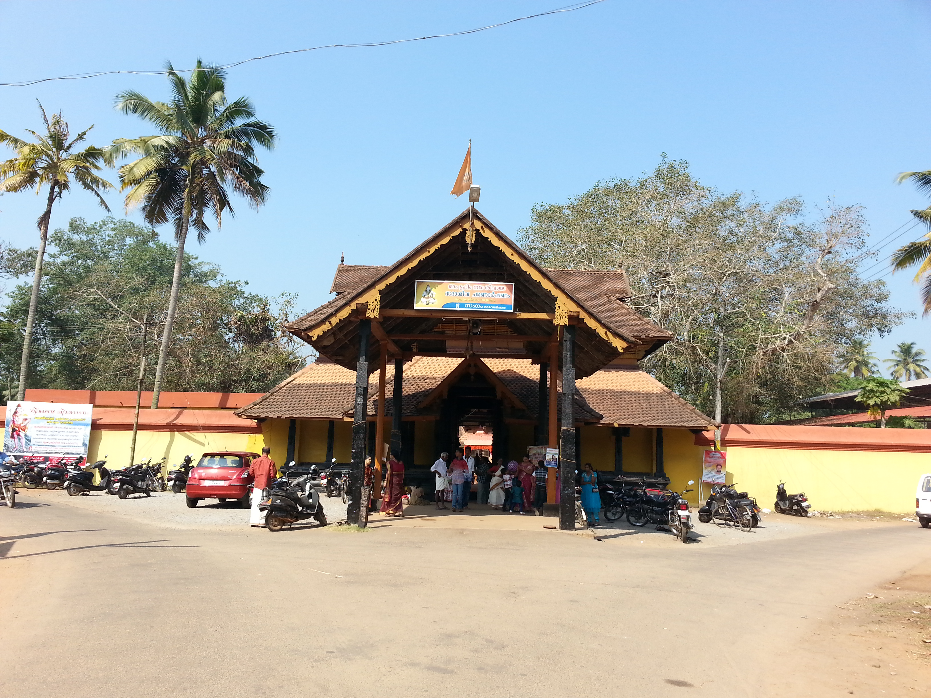 Mavelikara Kandiyur Temple